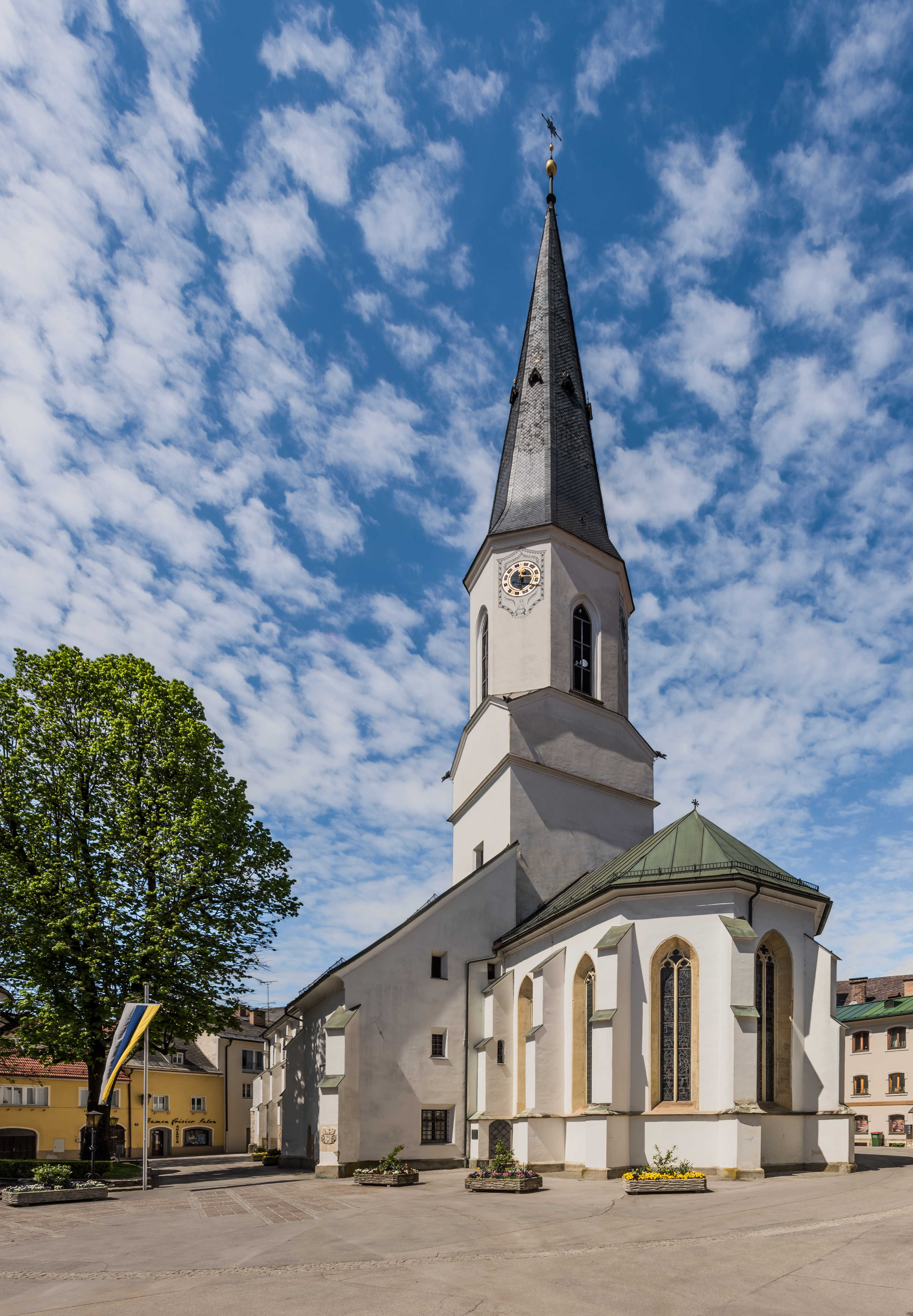 Southeastern view of the city parish church Holy Trinity on Kirchplatz, municipality St. Veit an der Glan, district Sankt Veit, Carinthia, Austria, EU